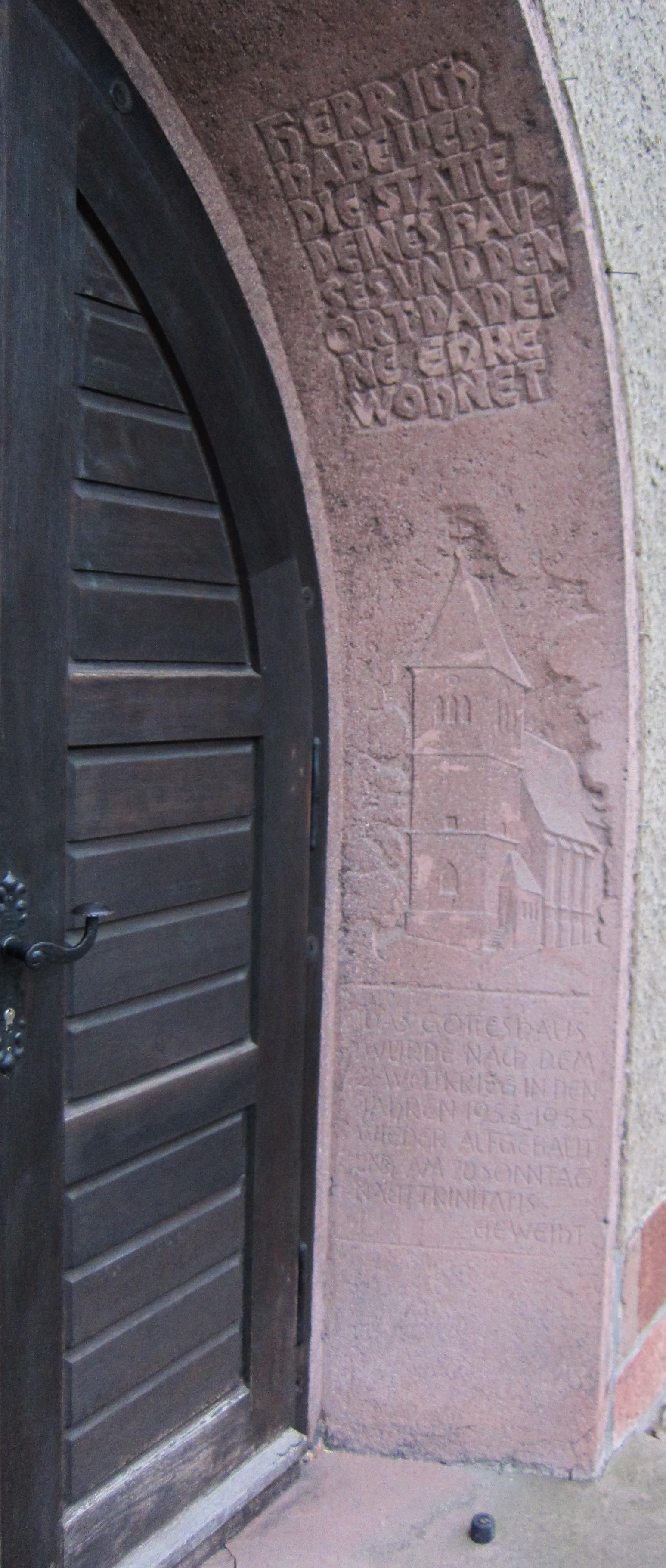 Stone relief on the church of Lohma on the Leina (Langenleuba-Niederhain, district of Altenburger Land, Thuringia)